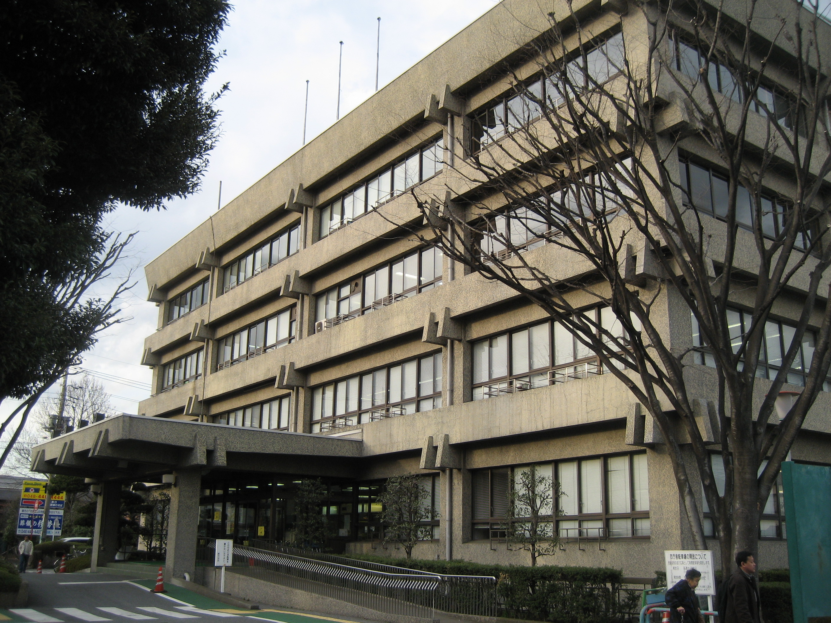 Warabi City Hall